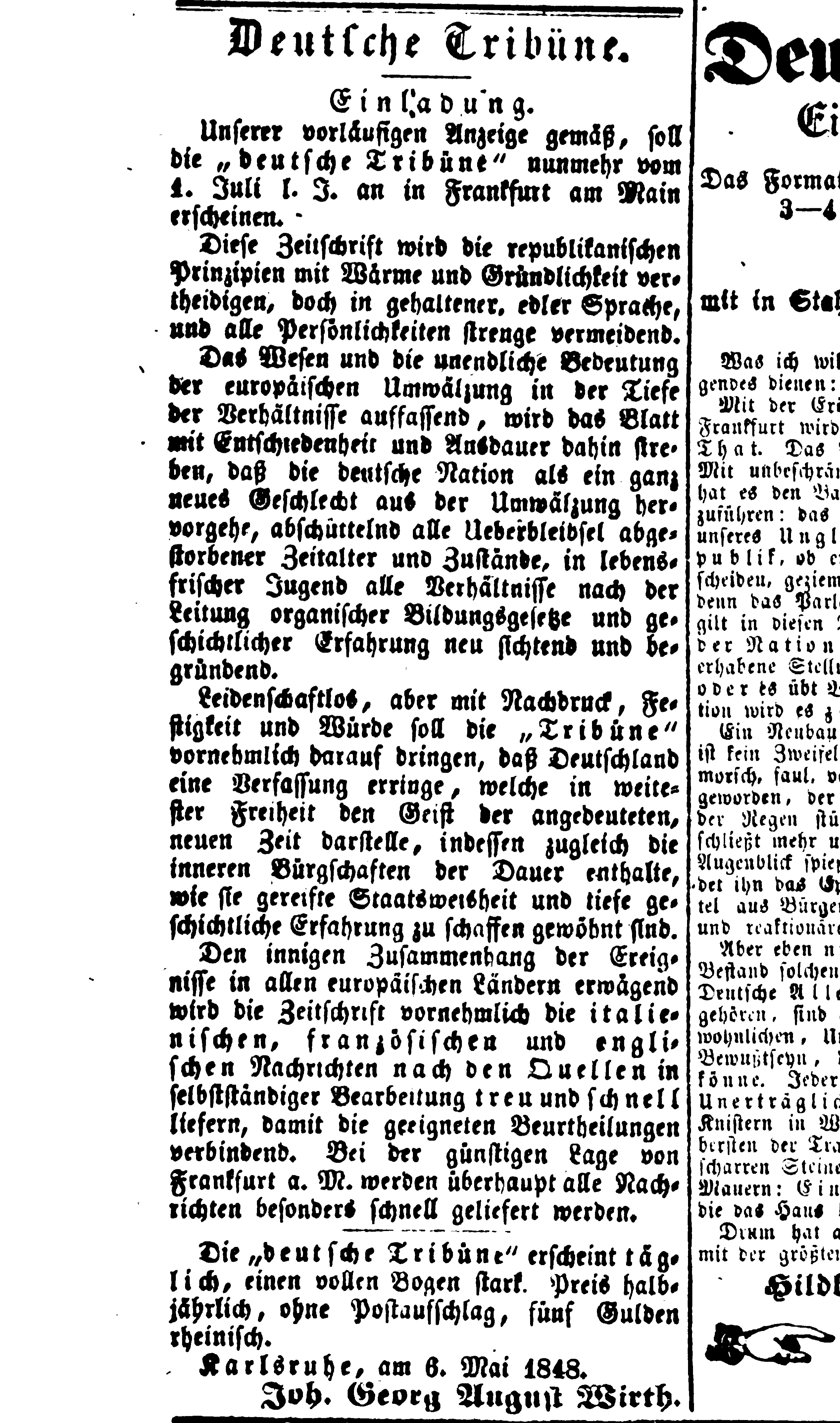 announcement for the german newspaper "Deutsche Tribüne" to reprint in 1948